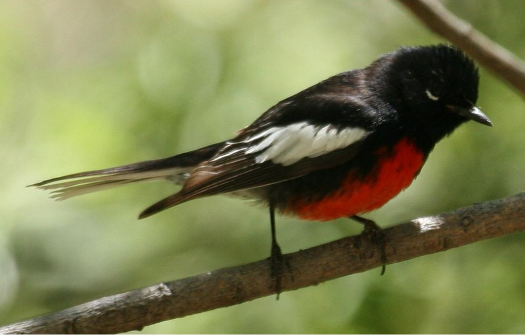 Painted Redstart